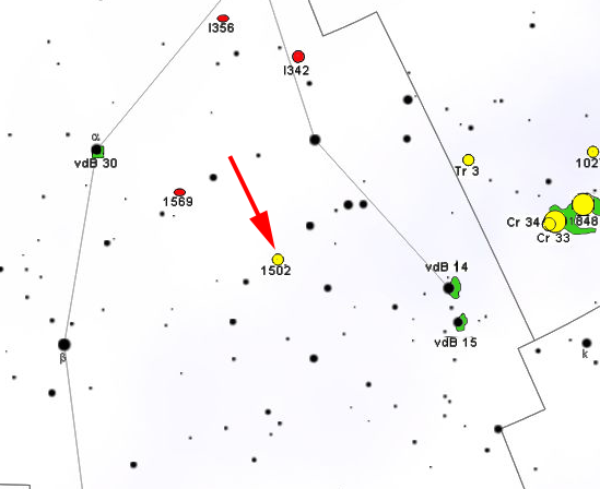 Map of NGC 1502